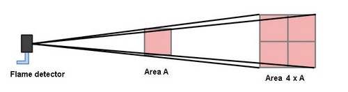 Square law, Flame detection